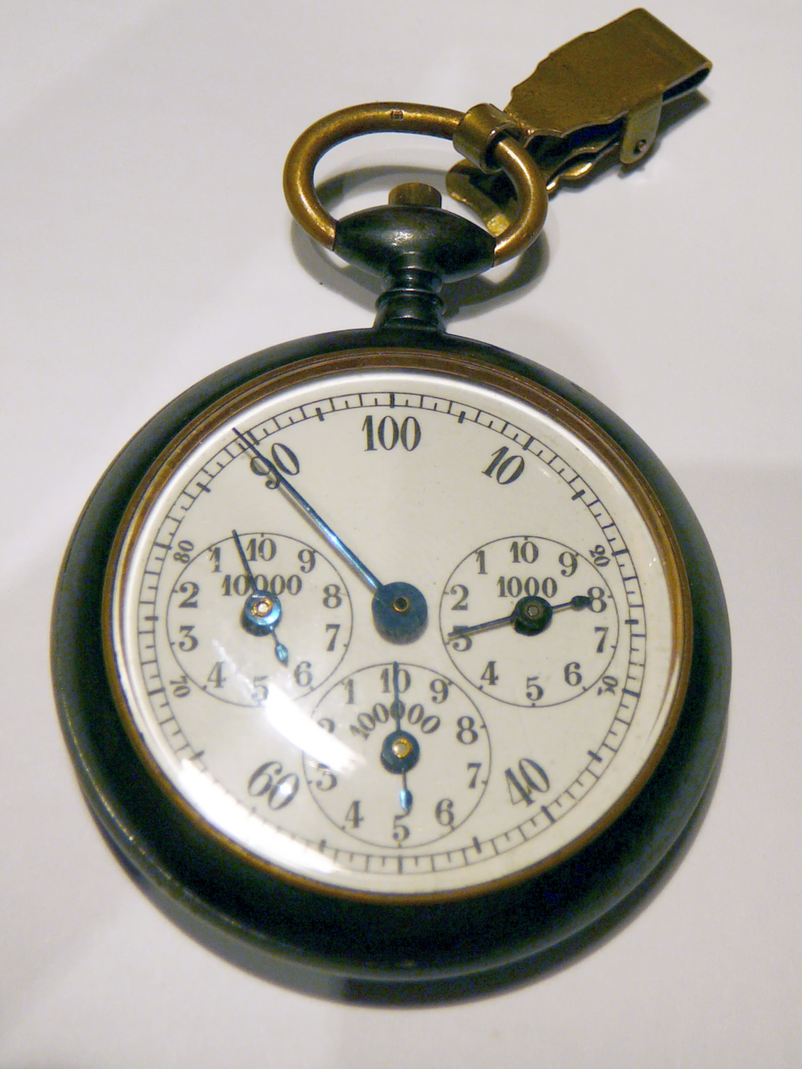 Photograph of the old German mechanic pedometer of the late Meinhard Hasselblatt